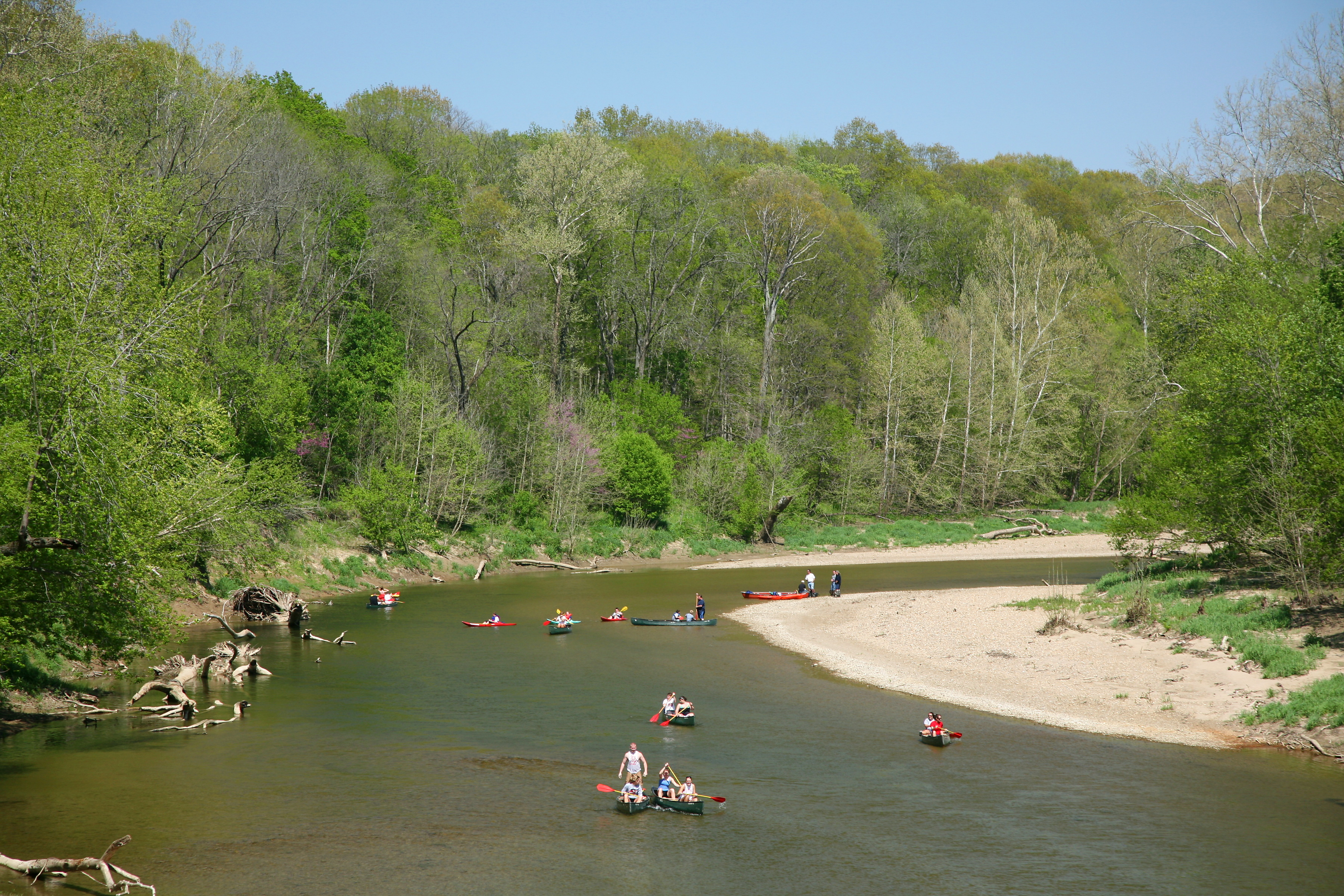 Sugar Creek in Turkey Run State Park, Indiana, USA